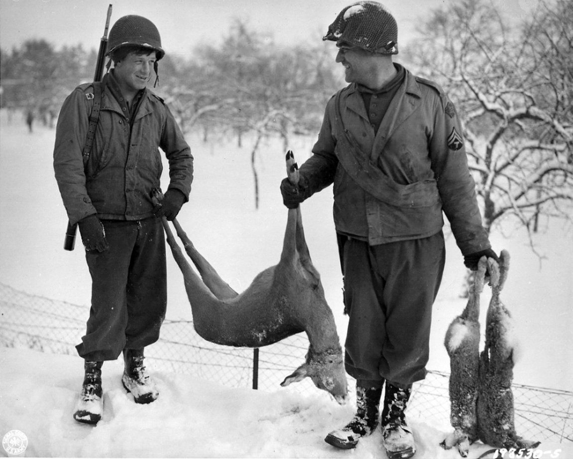 Two American soldiers of U.S. 4th Signal Company, 4th Infantry Division, hold the day’s bag during the Ardennes Counteroffensive of the Battle of the Bulge; one deer and two rabbits, which will supplement their rations. Left is Pfc. Clinton Calvert of Baynard, Nebraska, and right is Cpl. Roy Swisher of Washington, D.C. Near Goesdorf, Wiltz, Luxembourg. December 1944.